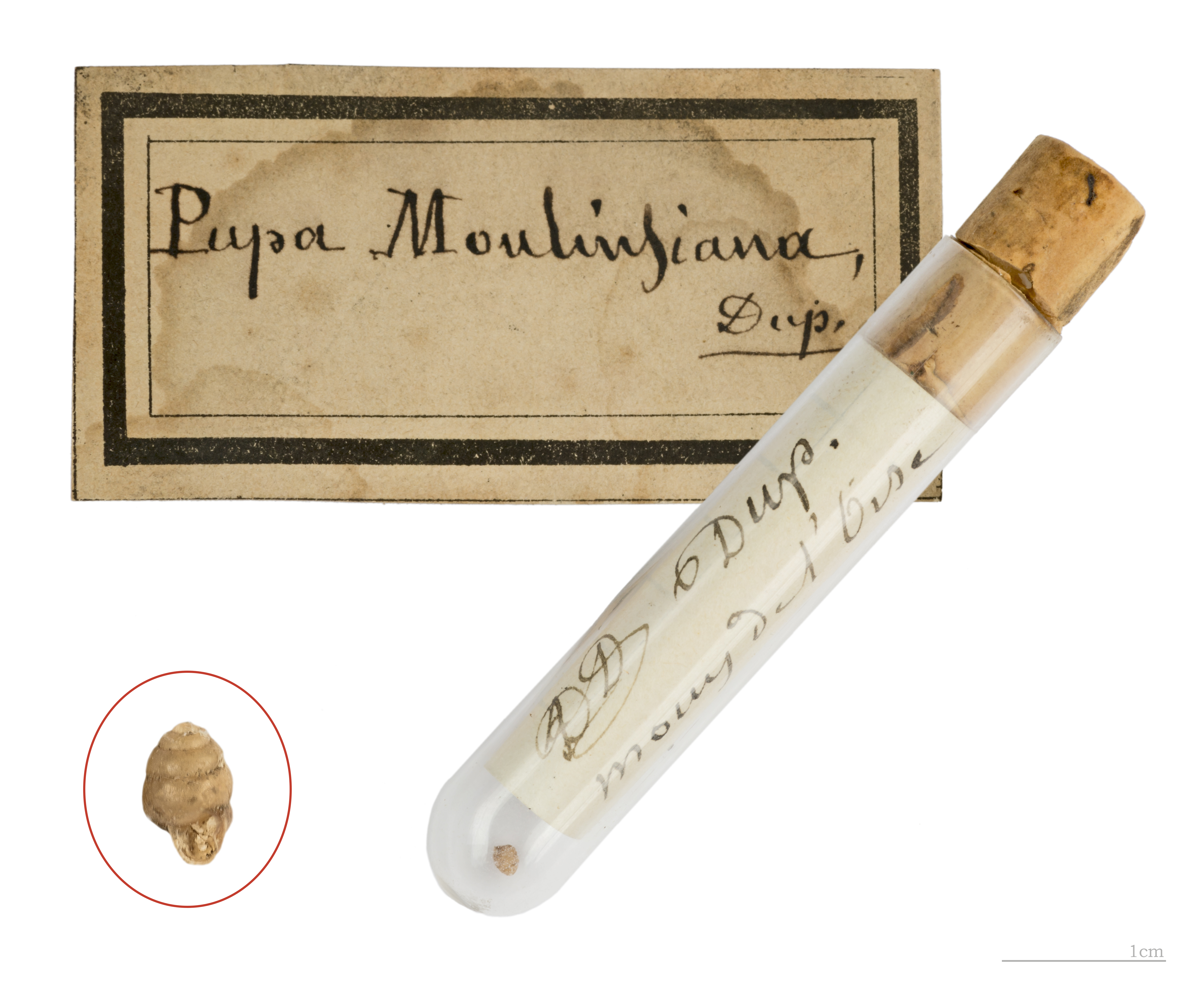 Vertigo moulinsiana. Holotype Size 1.63 mm.